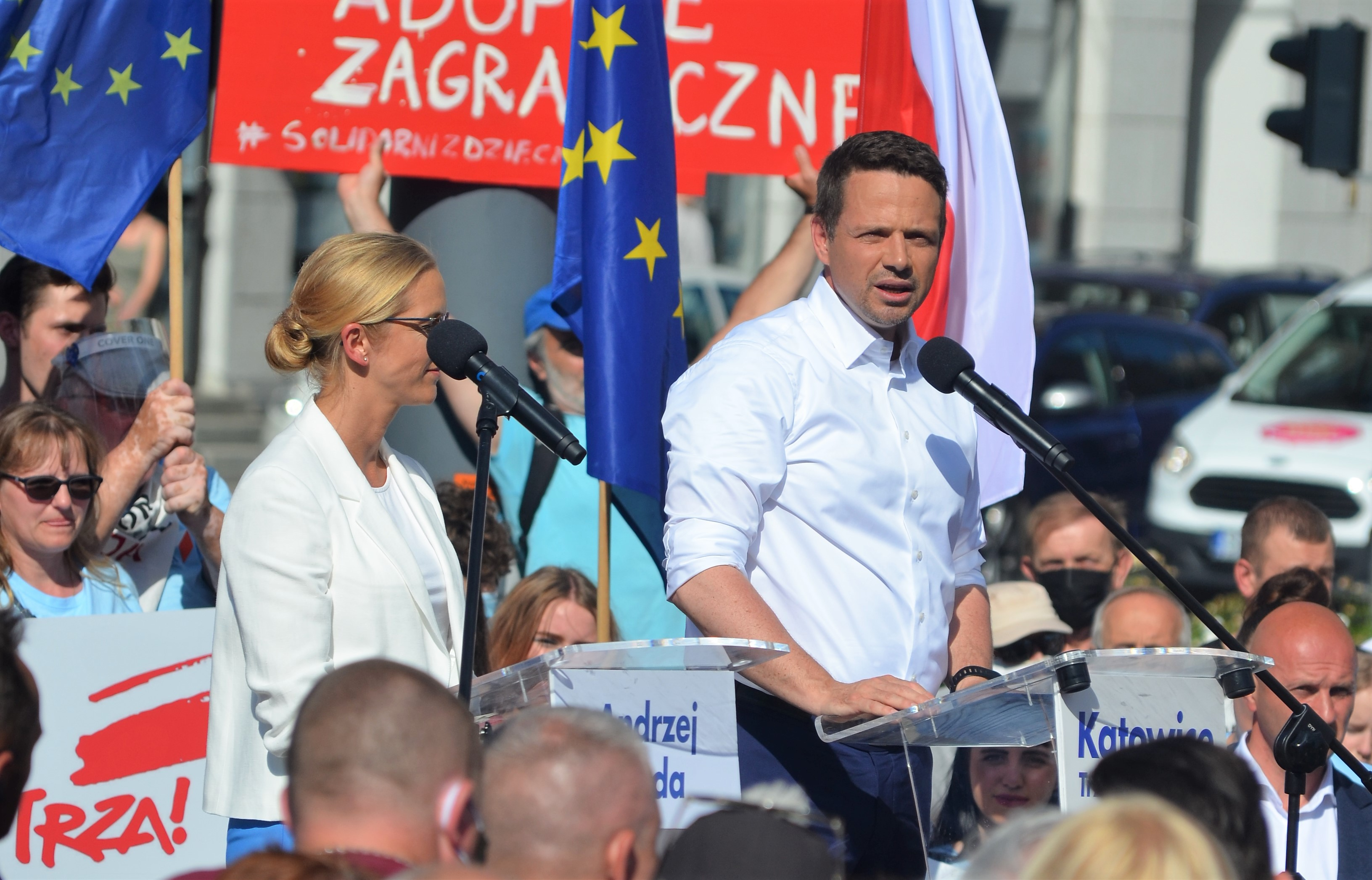 Małgorzata Trzaskowska, Rafał Trzaskowski, Katowice